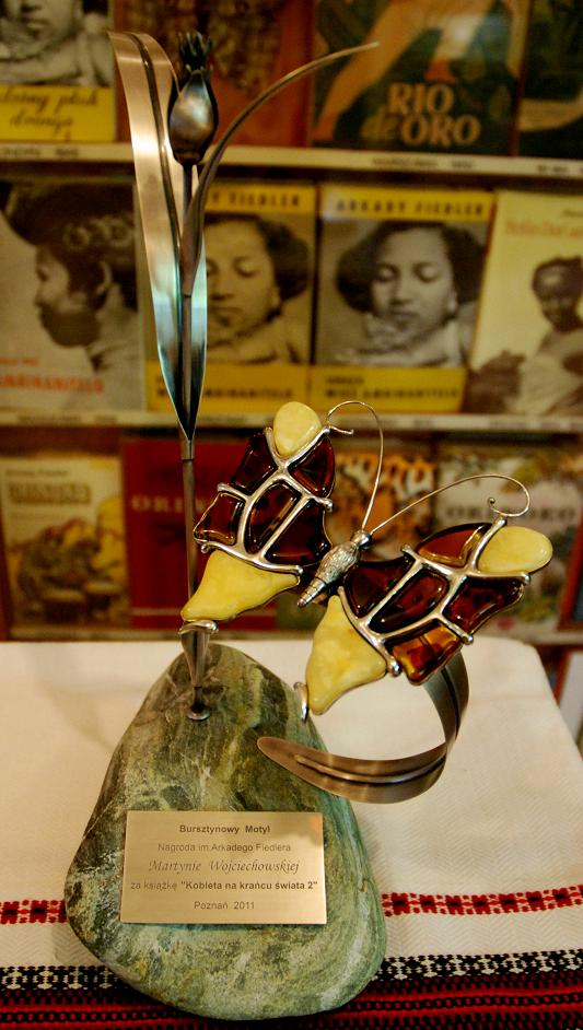 Amber Butterfly